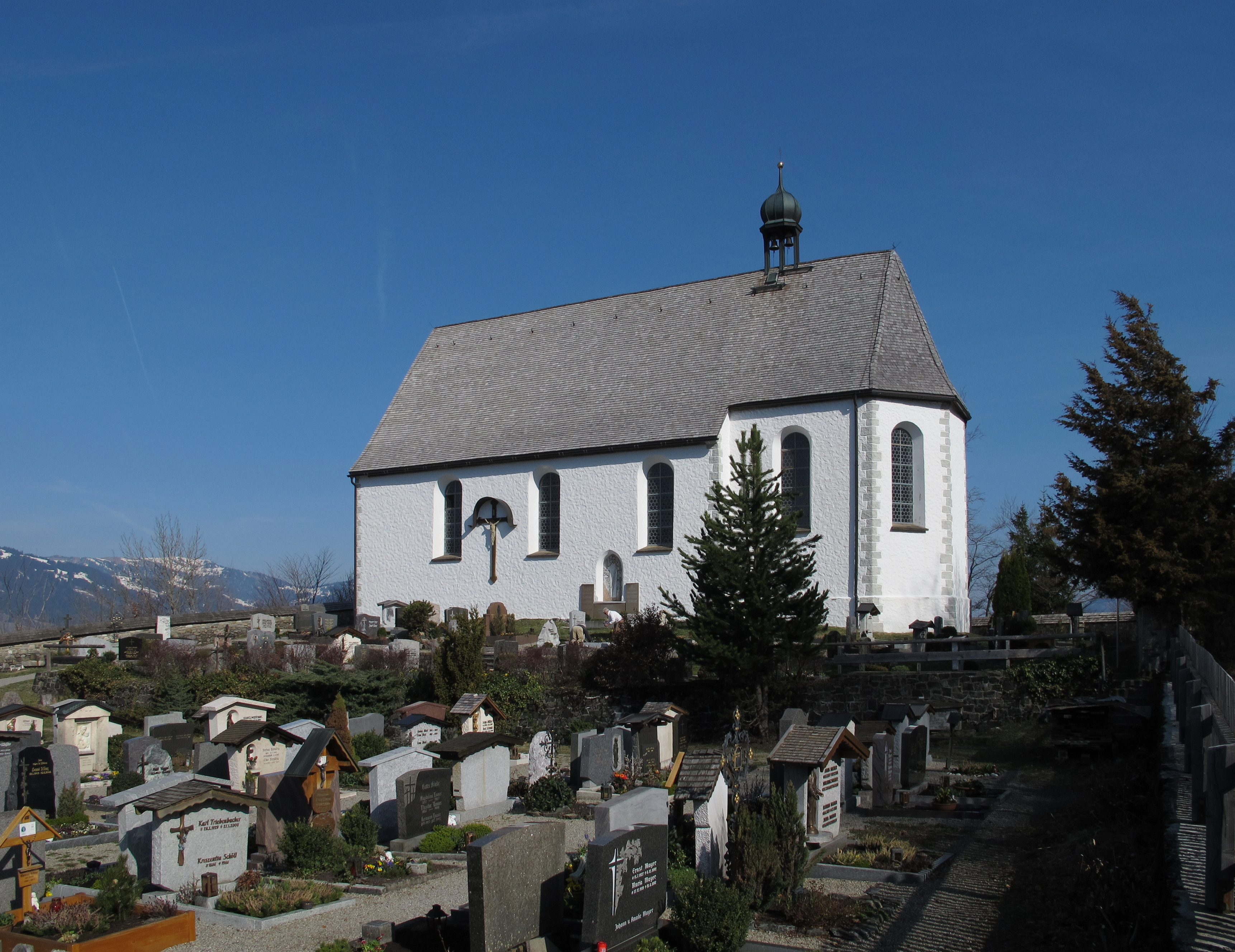 Church St. Michael in Schöllang near Oberstdorf (Germany): Exterior view from SE